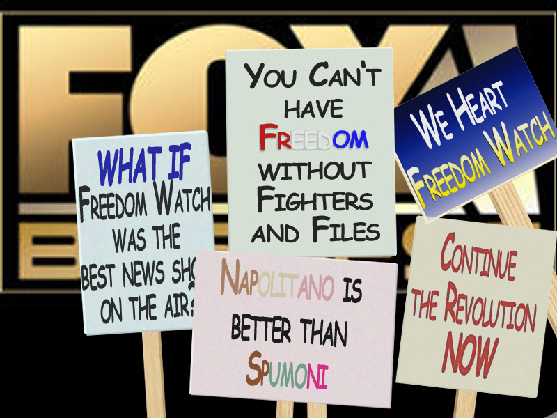 Satirical pic, typifying the response to the cancellation of Freedom Watch